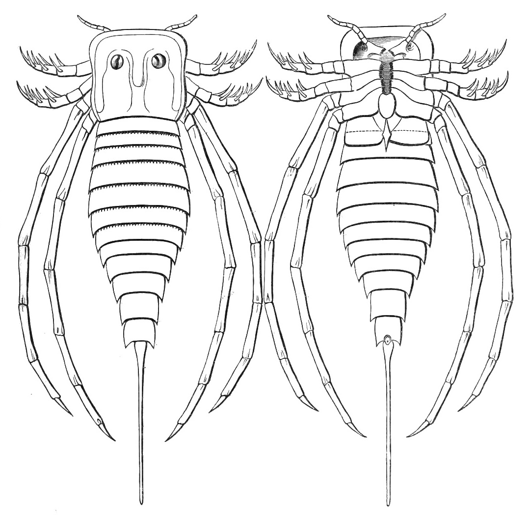 Stylonurus logani, H. Woodward (restored). From the Upper Silurian, Lesmahagow, Lanarkshire. Left: Dorsal view. Right: Ventral aspect.